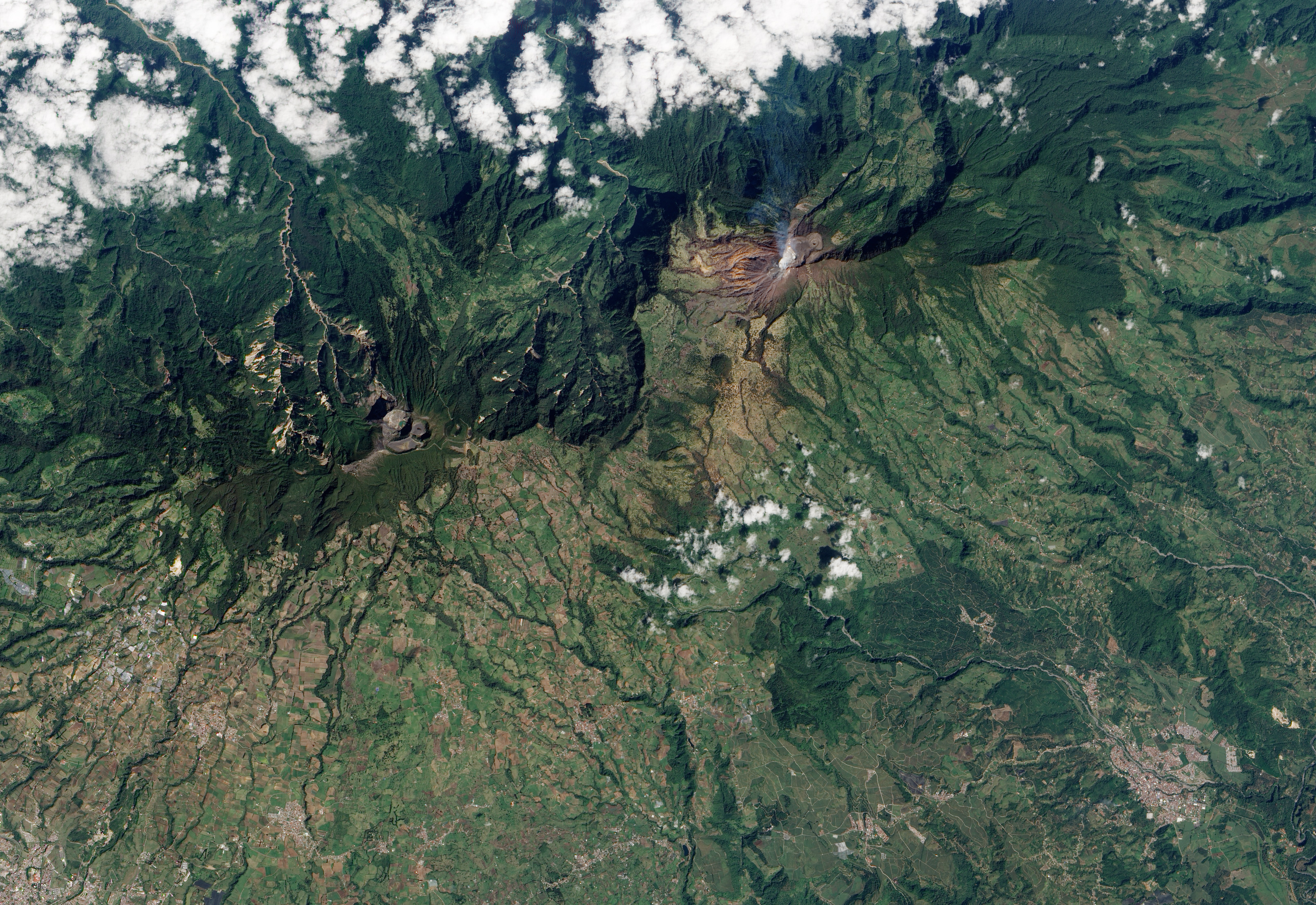 Turrialba Volcano, located in central Costa Rica, emits a translucent plume of volcanic gases in this natural-colour satellite image. The barren summit region of the 3,340-meter high Turrialba appears grey and brown, while the volcanic plume is a hazy blue. Fields and pastures are light green, in contrast to dark green forest that covers the high-elevation ridges. Since 2007, frequent acid rain showers caused by activity at the volcano killed or damaged much of the vegetation to the south-west of the summit, leaving the area brown and orange.